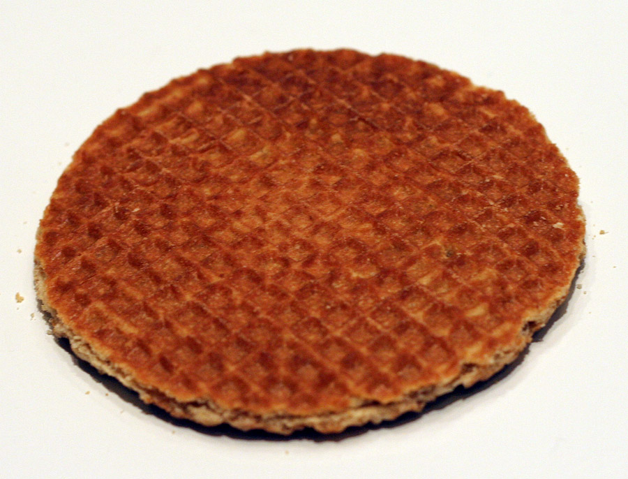 Stroopwafel